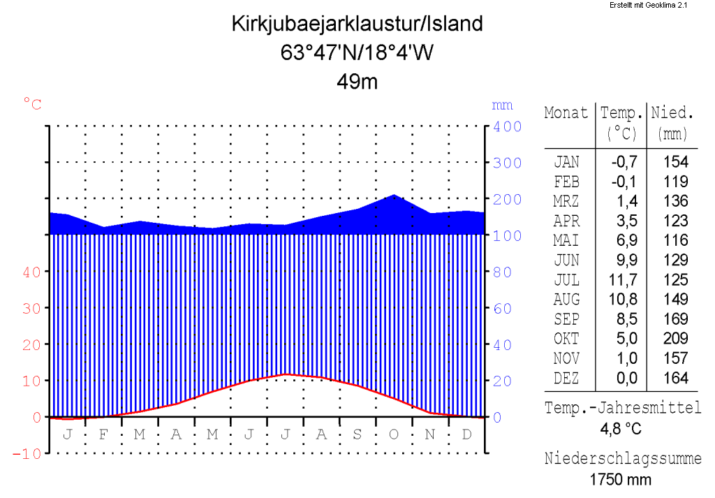 climate chart in the format by Walter and Lieth, metric, °Celsisus and millimeters, made with Geoklima 2.1